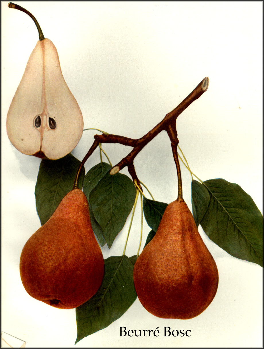 A colour plate from The Pears of New York (1921) depicting the Beurré Bosc pear cultivar.